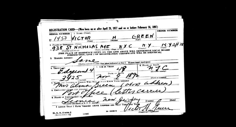 Victor H. Green in the World War II draft registration